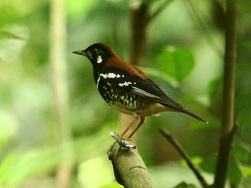 Red-backed Thrush (Geokichla erythronota) at Tangkoko Nature Reserve, North Sulawesi